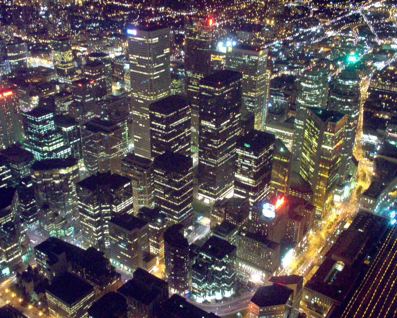 Toronto Downtown Core, at nite from CN Tower.